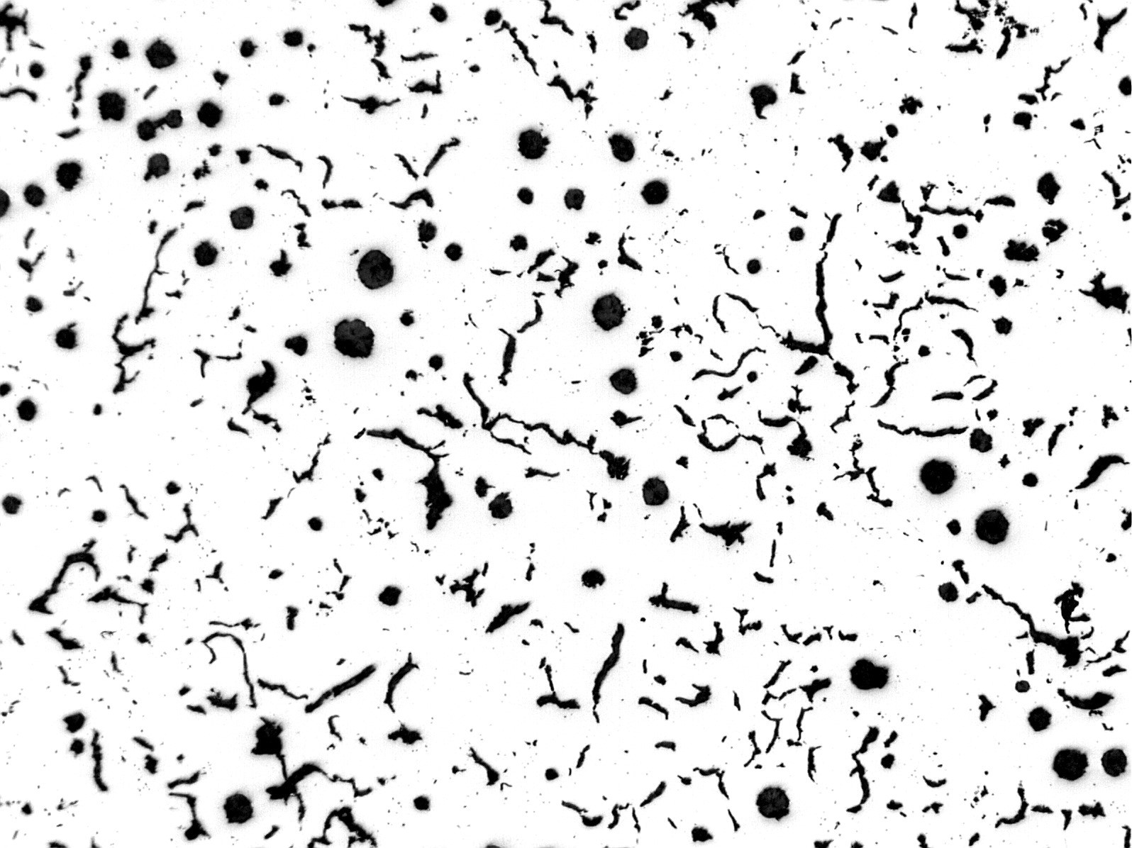 Cast iron GJV, polished, vermicular (+spherical) graphite, magnification 50:1 (if printed 12 x 9 cm)